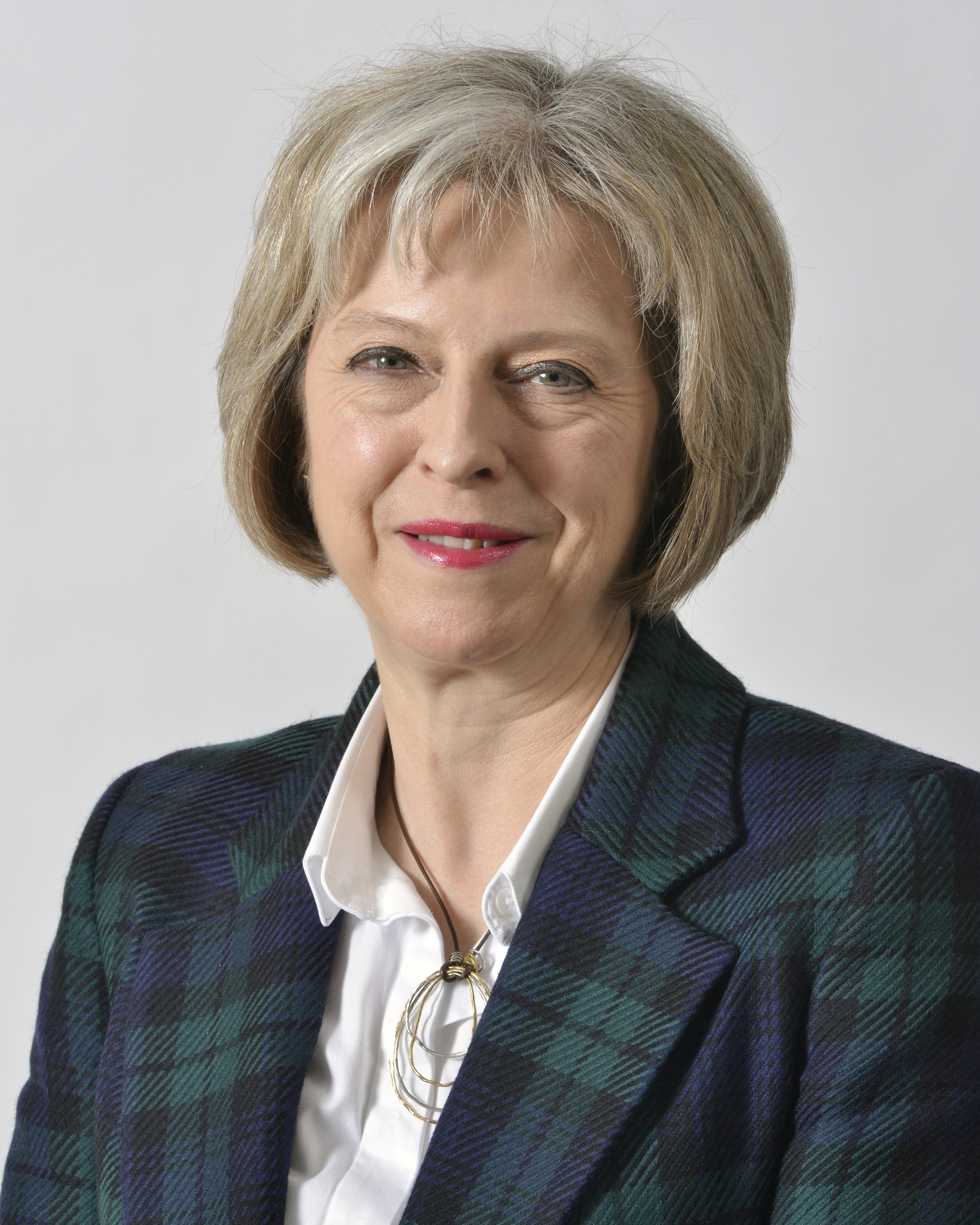 Theresa May, Prime minister of the United Kingdom of Great Britain and Northern Ireland